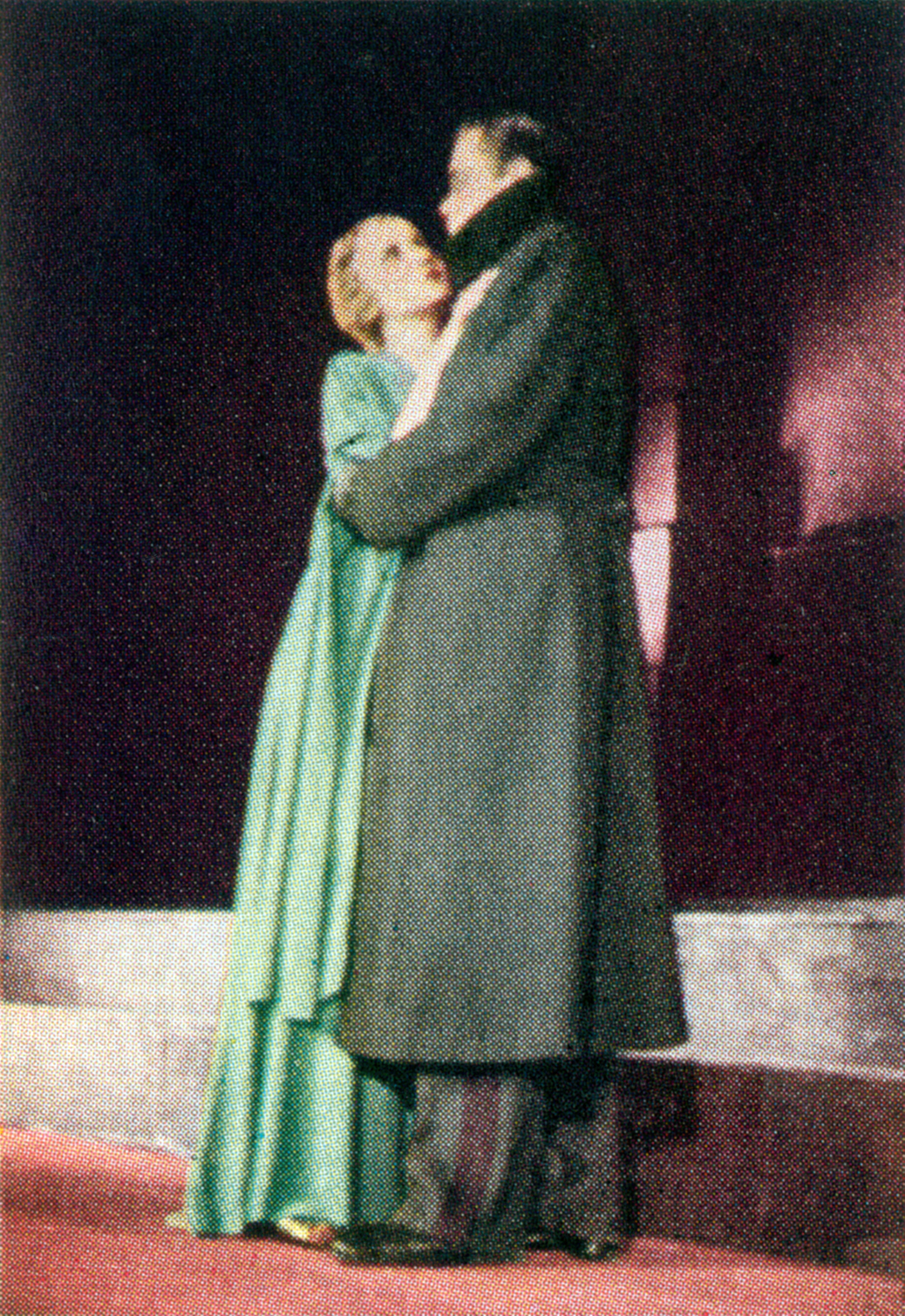 Photograph of Alice Frost as Portia and Orson Welles as Brutus in the Mercury Theatre stage production of Caesar, part of a feature story titled "The Man from Mercury" (pp. 98–102)